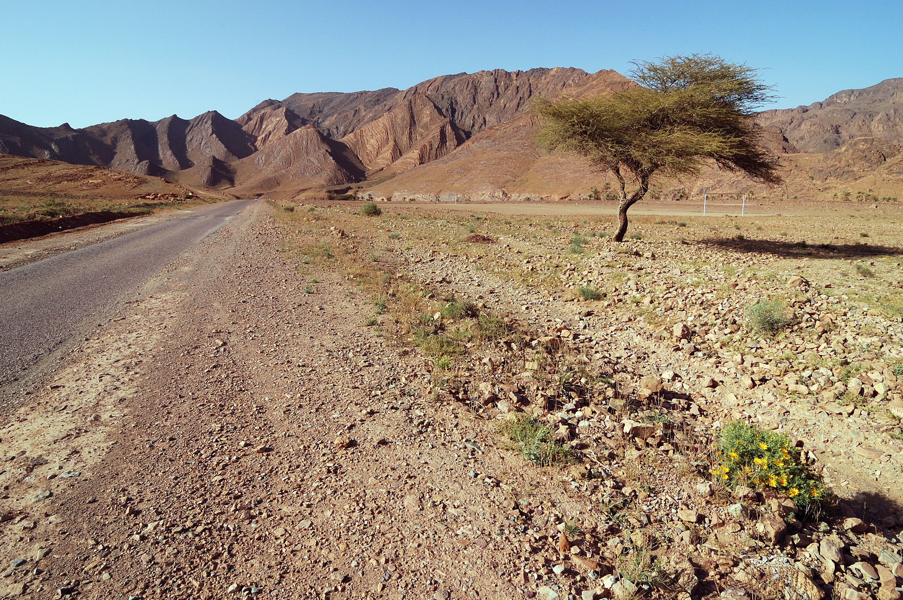 Somewhere between Foum-Zguid and Tazenakht, Morocco [2009]